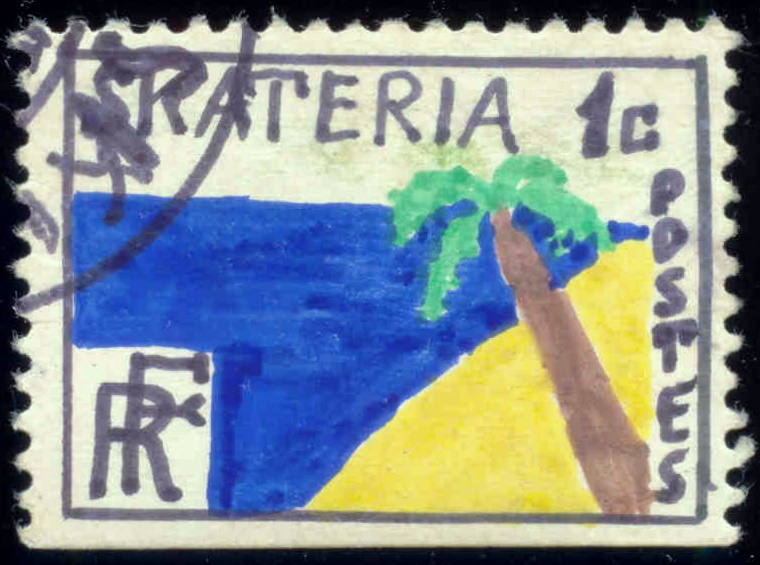 An artistamp of non-existing land, Skateria, created by Leonid Dzhepko around 1971. Stamp sheet margin, felt pens.